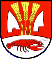 Modern coat of arms of the village of Žikava / Zsikva / Sycava. Slovakia